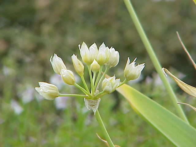 Species: Allium moly Family: Liliaceae Image No. 1